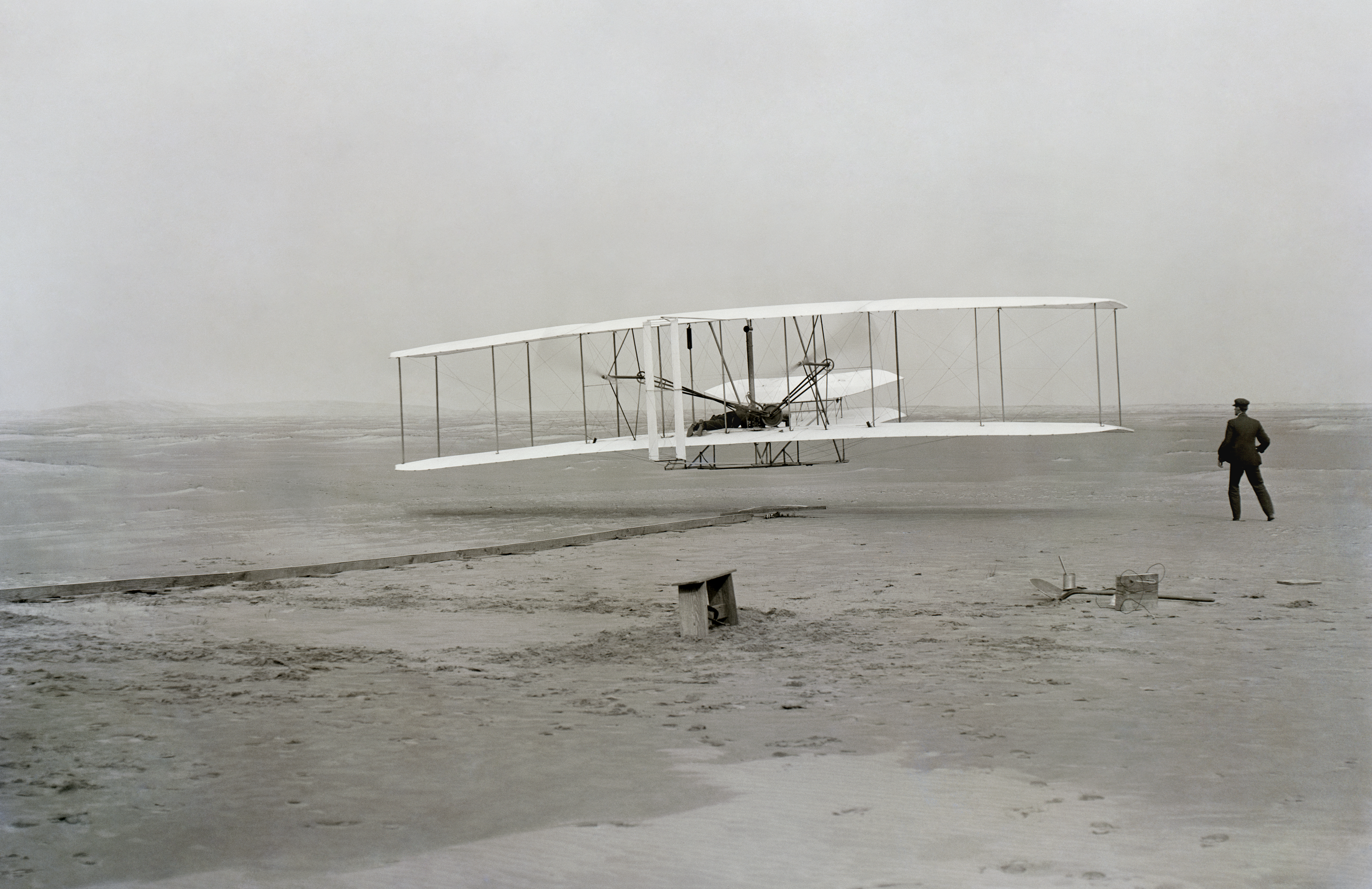 First successful flight of the Wright Flyer, by the Wright brothers. The machine traveled 120 ft (36.6 m) in 12 seconds at 10:35 a.m. at Kill Devil Hills, North Carolina. Orville Wright was at the controls of the machine, lying prone on the lower wing with his hips in the cradle which operated the wing-warping mechanism. Wilbur Wright ran alongside to balance the machine, and just released his hold on the forward upright of the right wing in the photo. The starting rail, the wing-rest, a coil box, and other items needed for flight preparation are visible behind the machine. This is described as "the first sustained and controlled heavier-than-air, powered flight" by the Fédération Aéronautique Internationale, but is not listed by the FAI as an official record.